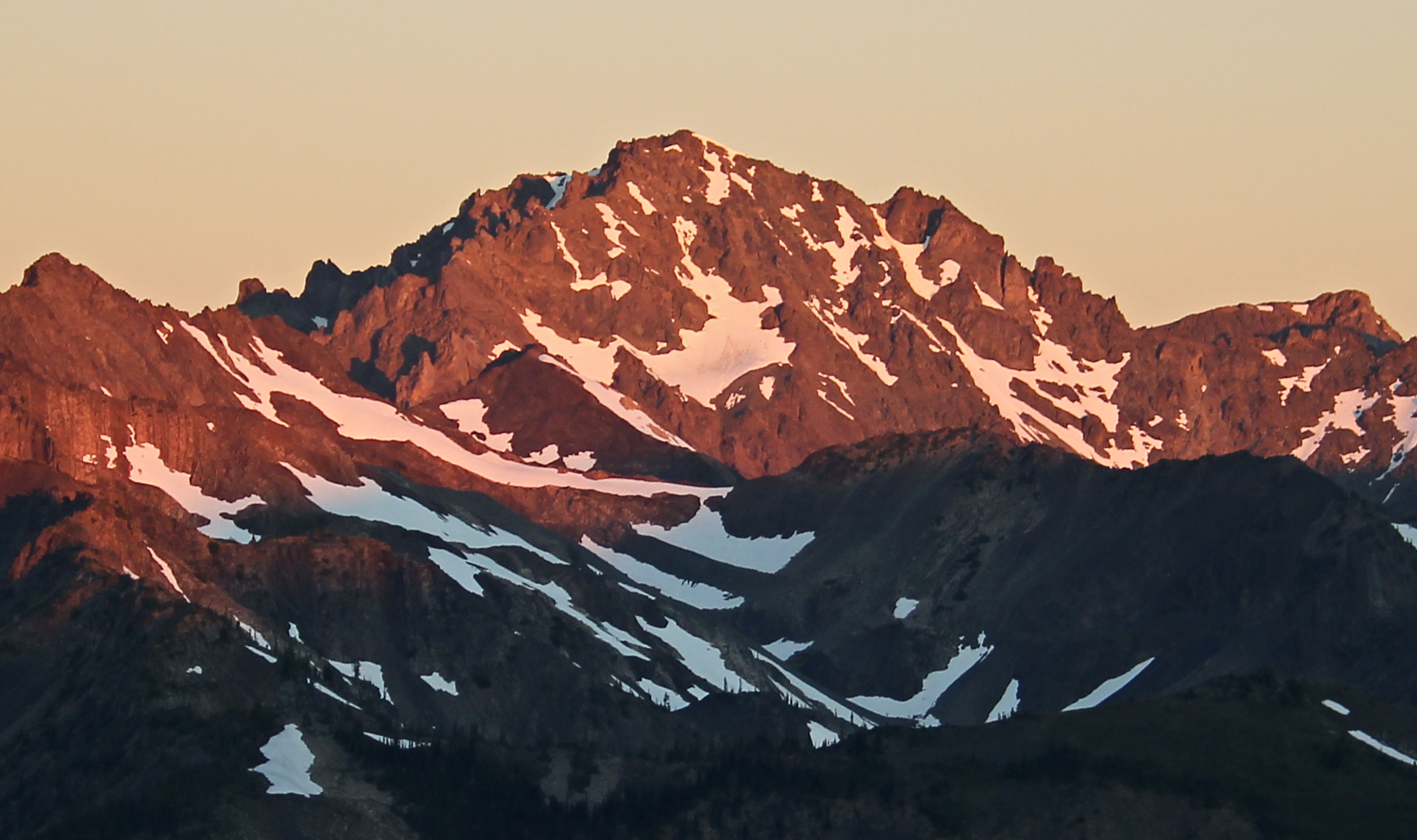 Mount Deception. Sunrise at Marmot Pass, looking west towards Olympic National Park, Buckhorn Wilderness on the Olympic National Forest